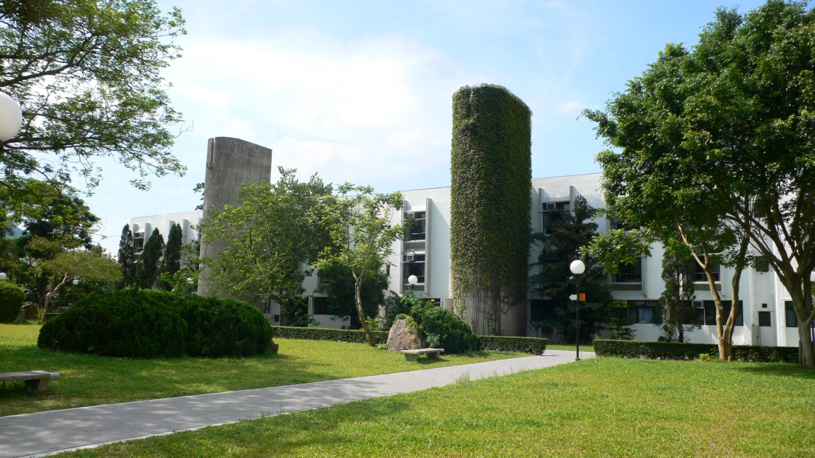 Adam Schall Residence, one of the dormitories in United College of The Chinese University of Hong Kong